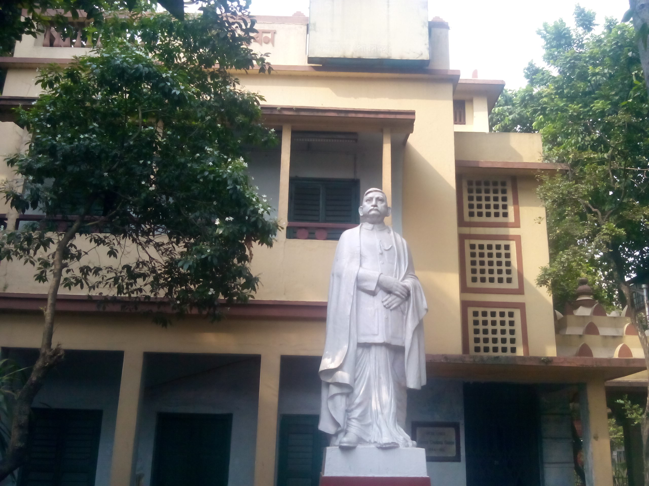 Girlish Chandra Ghosh in bagbazar